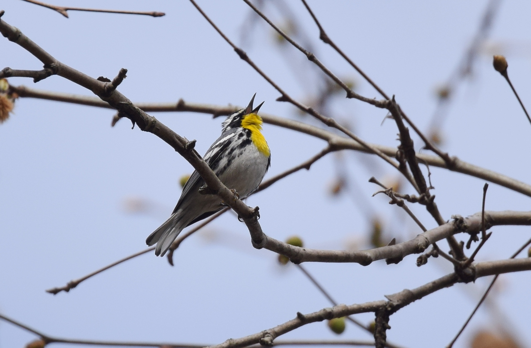 Castlewood State Park 4/2/16